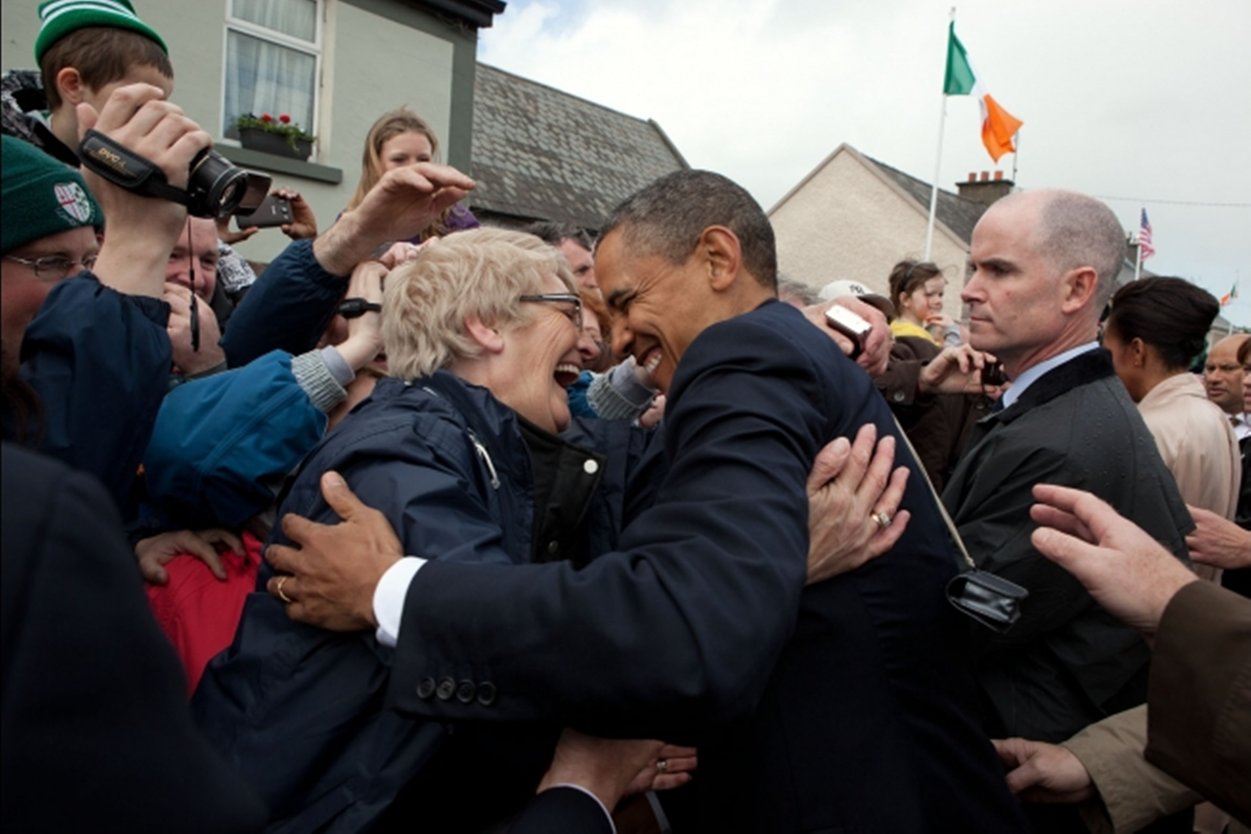 U.S. President Barack Obama and Michelle Obama (far right) greet people on Main Street in Moneygall, Ireland on 23 May 2011. White House photographer Pete Souza remarks, "This was one of the great trips of the year, albeit brief, when we visited Ireland in May. This rope line in Moneygall was particularly fun as people reacted so jubilantly to the President and First Lady. It was somewhat unusual, though, in that the sun kept coming in and out, and at times it was even pouring rain."